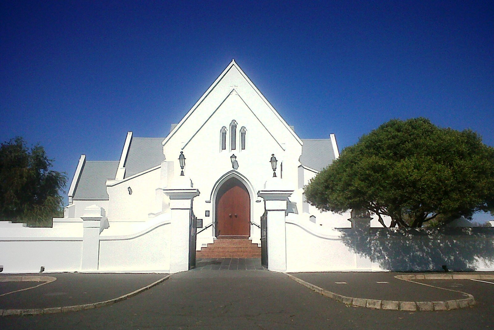 This National monument was built in 1826. It has undergone several changes since the early days, including the extension of the front porch in 1859, enlargement in 1891 and a new bell in 1903. It was extensively restored in 1974/5 before being declared a National Monument on 29 August 1975. This media shows a South African Protected Site with SAHRA file reference 9/2/012/0014.